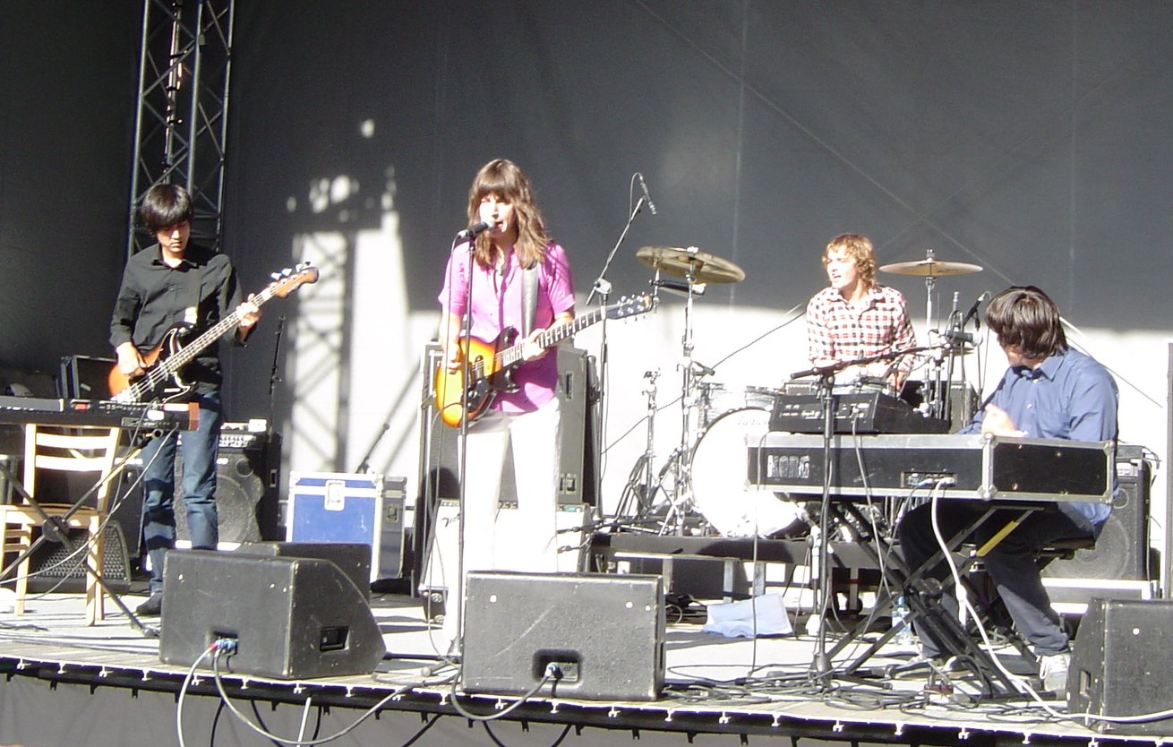 The Fiery Furnaces at Accelerator The Big One in Stockholm, 2004.